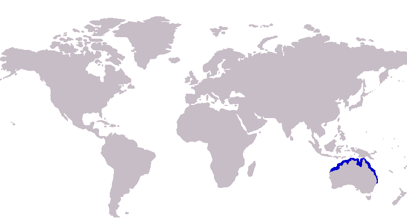 Distribution of the Smallmouth scad, Alepes apercna. Information gathered from Carpenter et al 2002 . Map taken from GDFL image